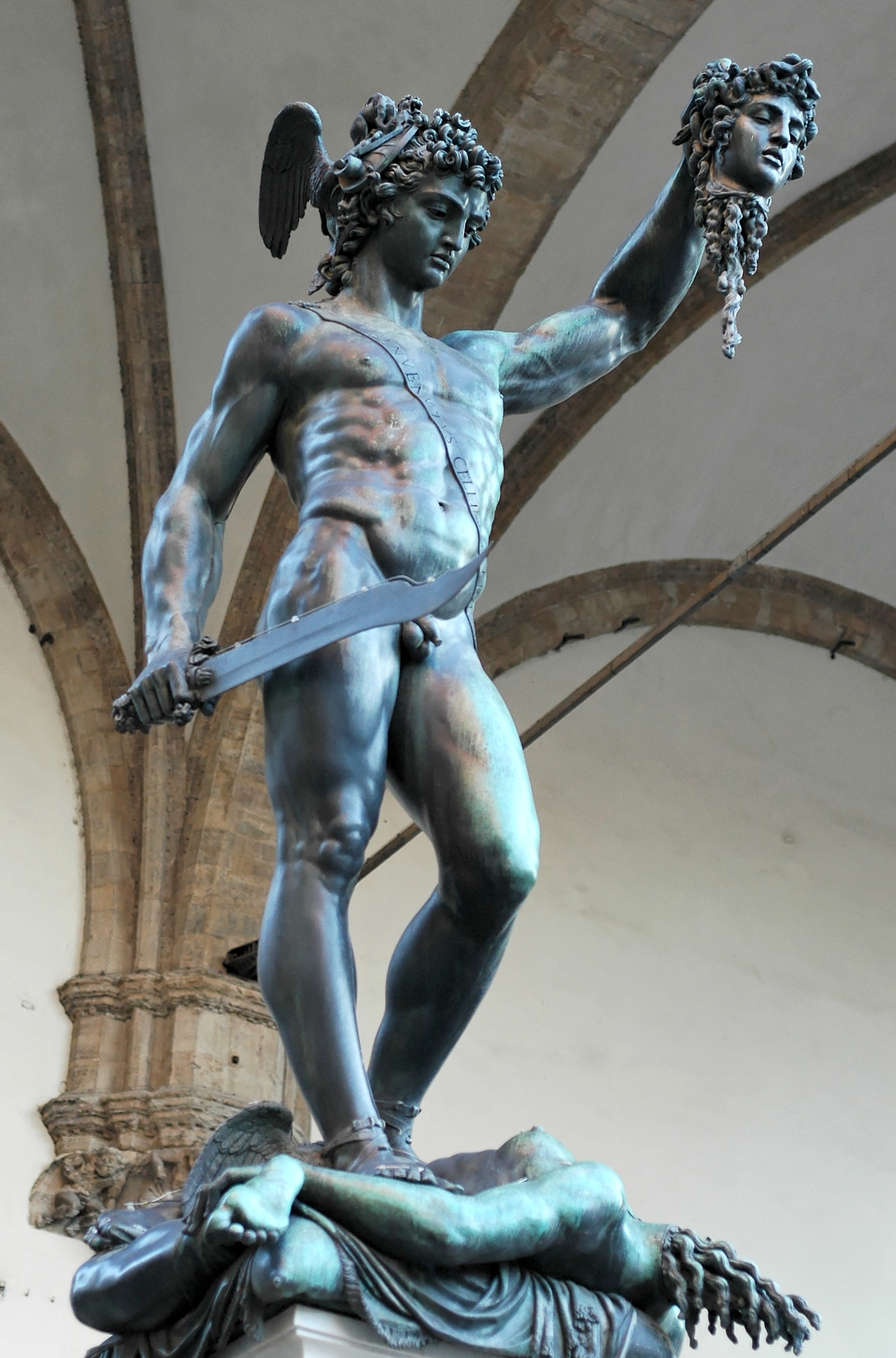 Perseus by Benvenuto Cellini. Bronze and marble (base), 1545–1554. Under the Loggia dei Lanzi, Florence, since 1554.